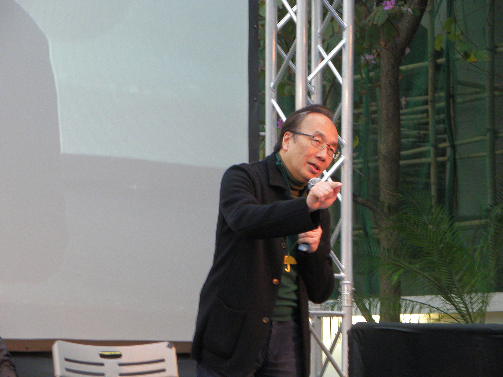 Alan Leong Kah-kit, leader of the Civic Party, Hong Kong.